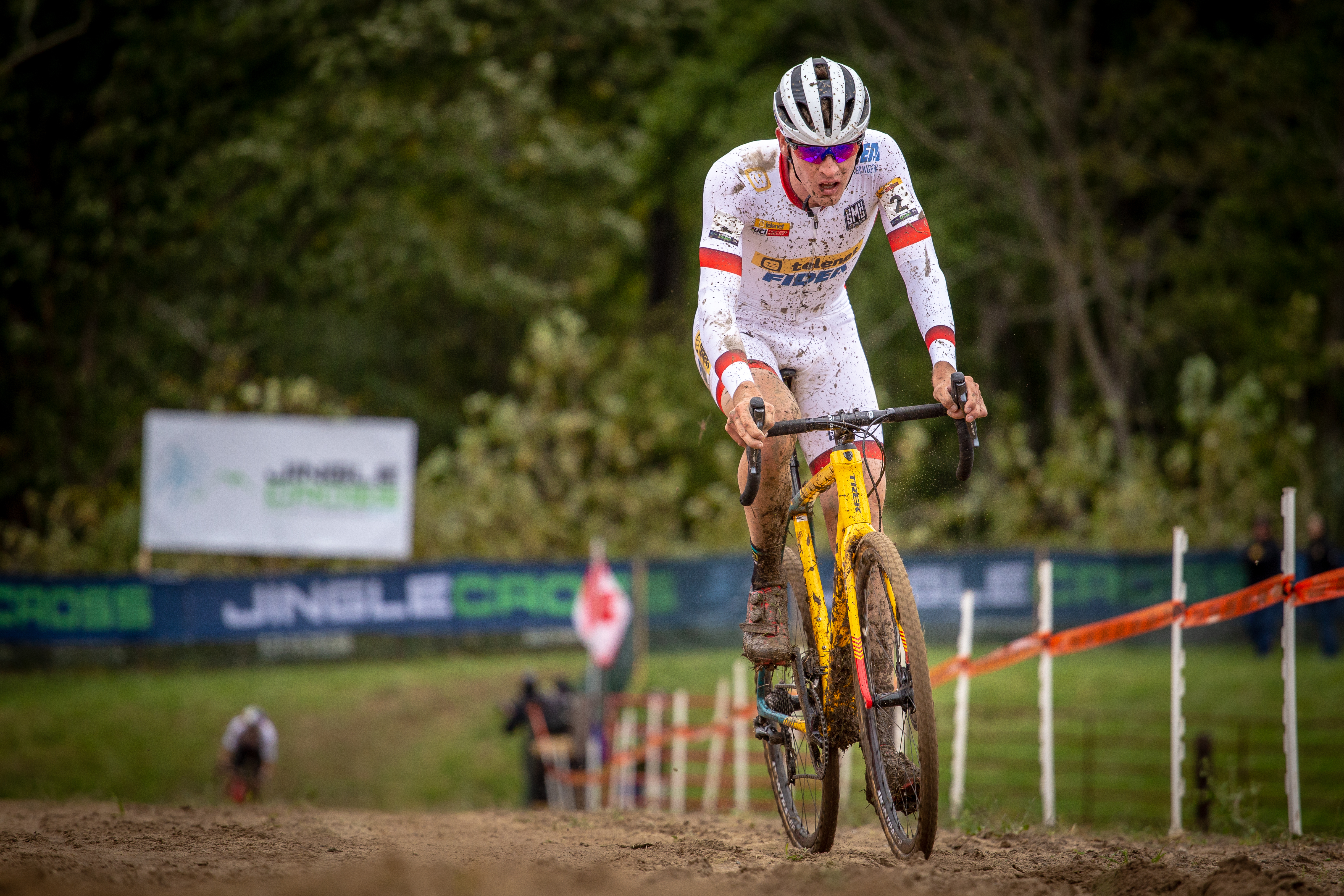 Photos from the 2018 Jingle Cross Cyclocross World Cup races in Iowa City. Toon Aerts (BEL) of Telenet-Fidea Lions won the men's race while current World Champion Wout Van Aert (BEL) was runner-up. Katie Keogh (USA) of Team Cannondale won the women's race while Evie Richards of Great Britain was runner-up.